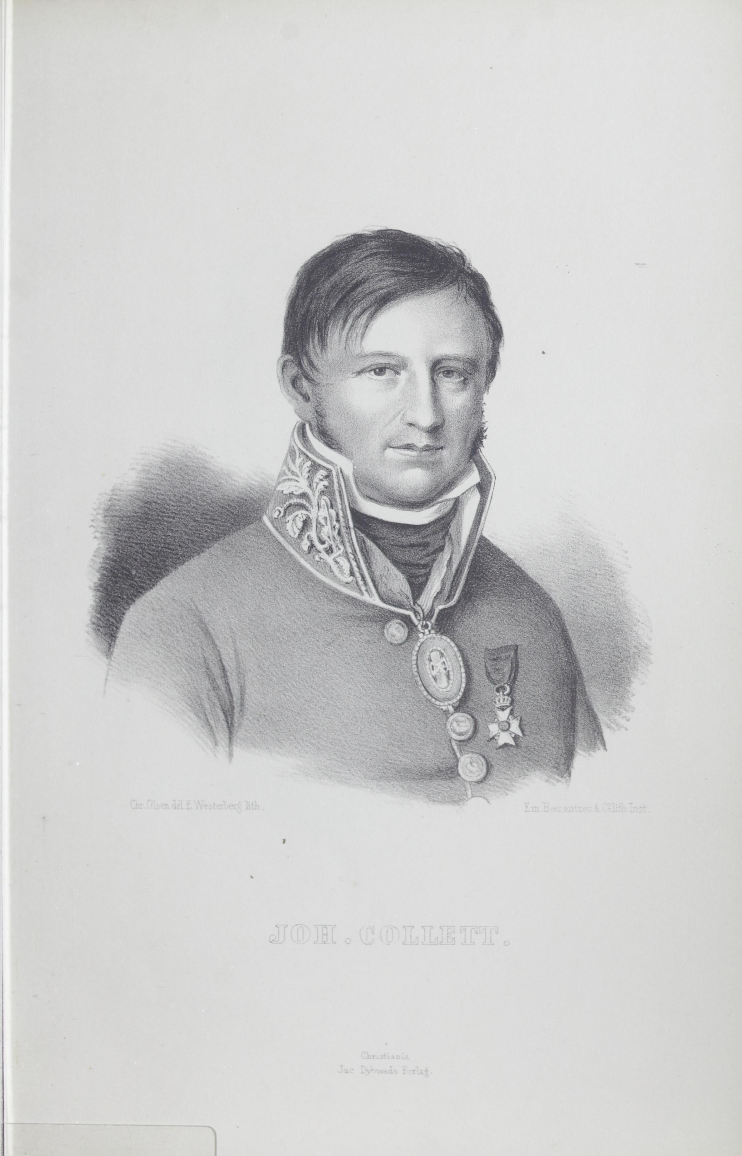 Illustration from the book "Eidsvold-galleri" by Botten-Hansen, Paul and published by Jac. Dybwad (Christiania, 1856-1860). Lithograph by Emil Westerberg after Christian Olsen, printed at Em. Bærentzen & Co lith. Inst.